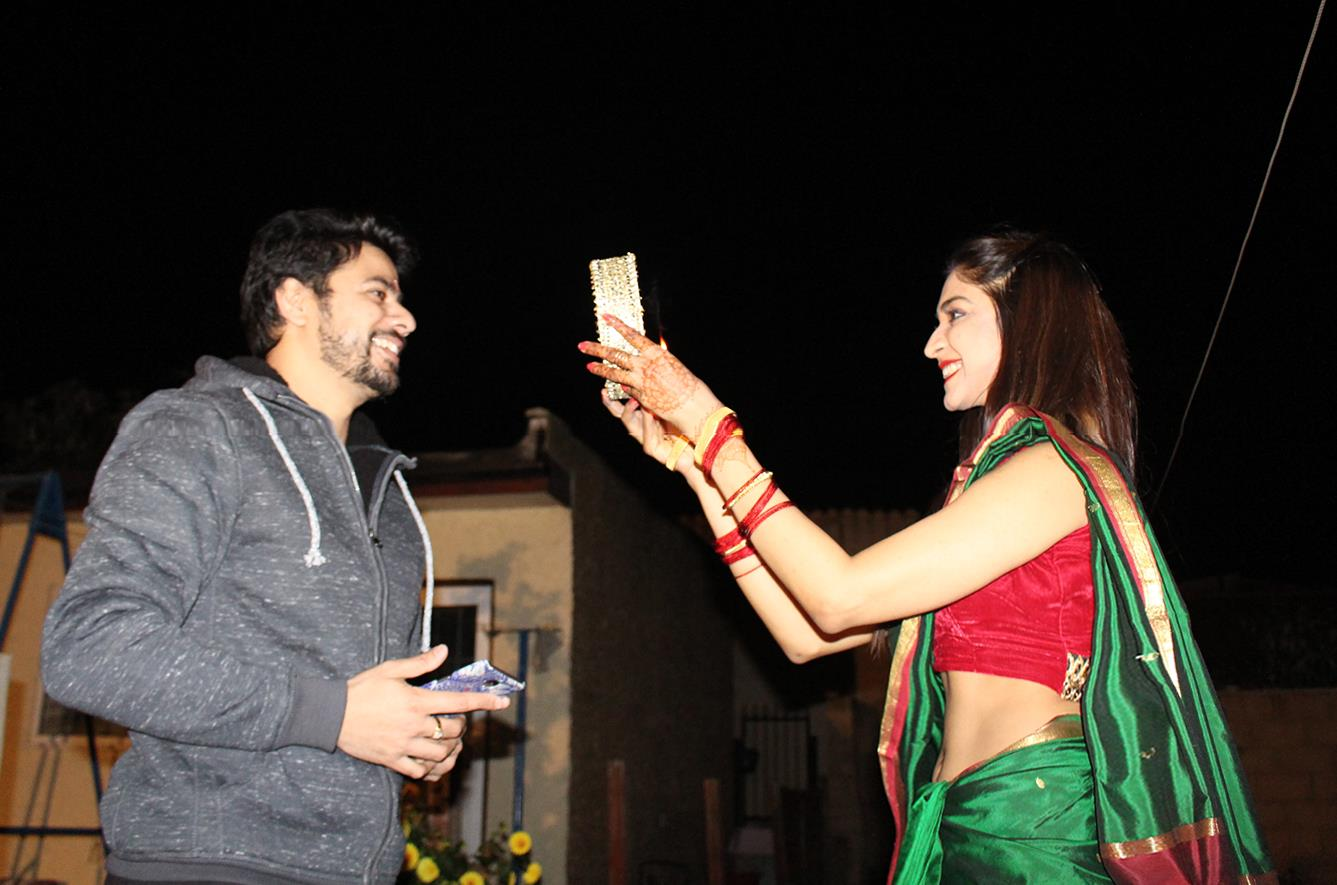 Karva Chauth (Hindi: करवा चौथ) is a one-day festival celebrated by Hindu women in many countries in which married women fast from sunrise to moonrise for the safety and longevity of their husbands.